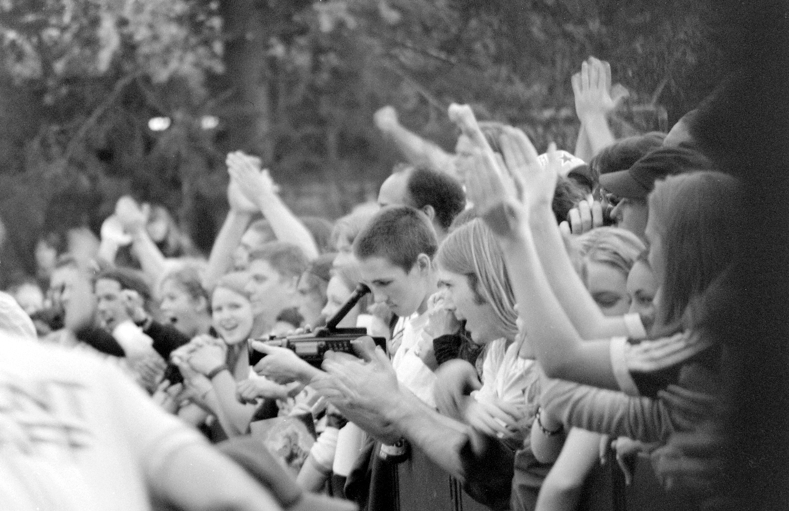 A young videographer remains still while all around him is movement. In the audience at a Pain in the Grass concert, Mural Amphitheater, Seattle Center, Seattle, Washington, USA. The concert featured 7 Year Bitch, Bloodloss, and Sleep Capsule.